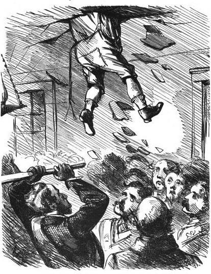 Illustration from George Washington Harris's short story, "Eaves Dropping a Lodge of Free Masons," showing an "eaves-dropping" incident at the Knox County Courthouse in Knoxville, Tennessee, USA.